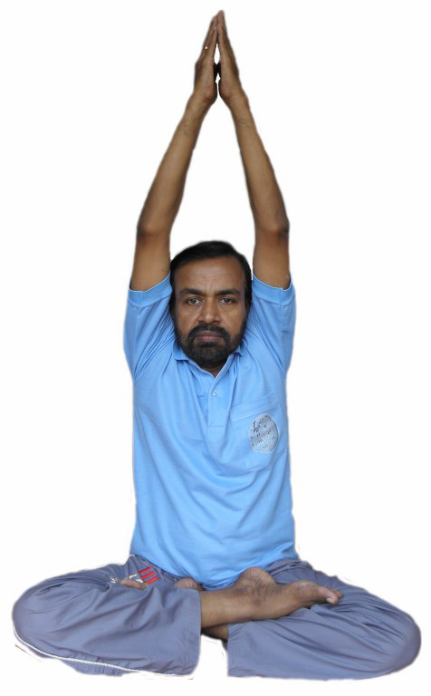 Hill_pose